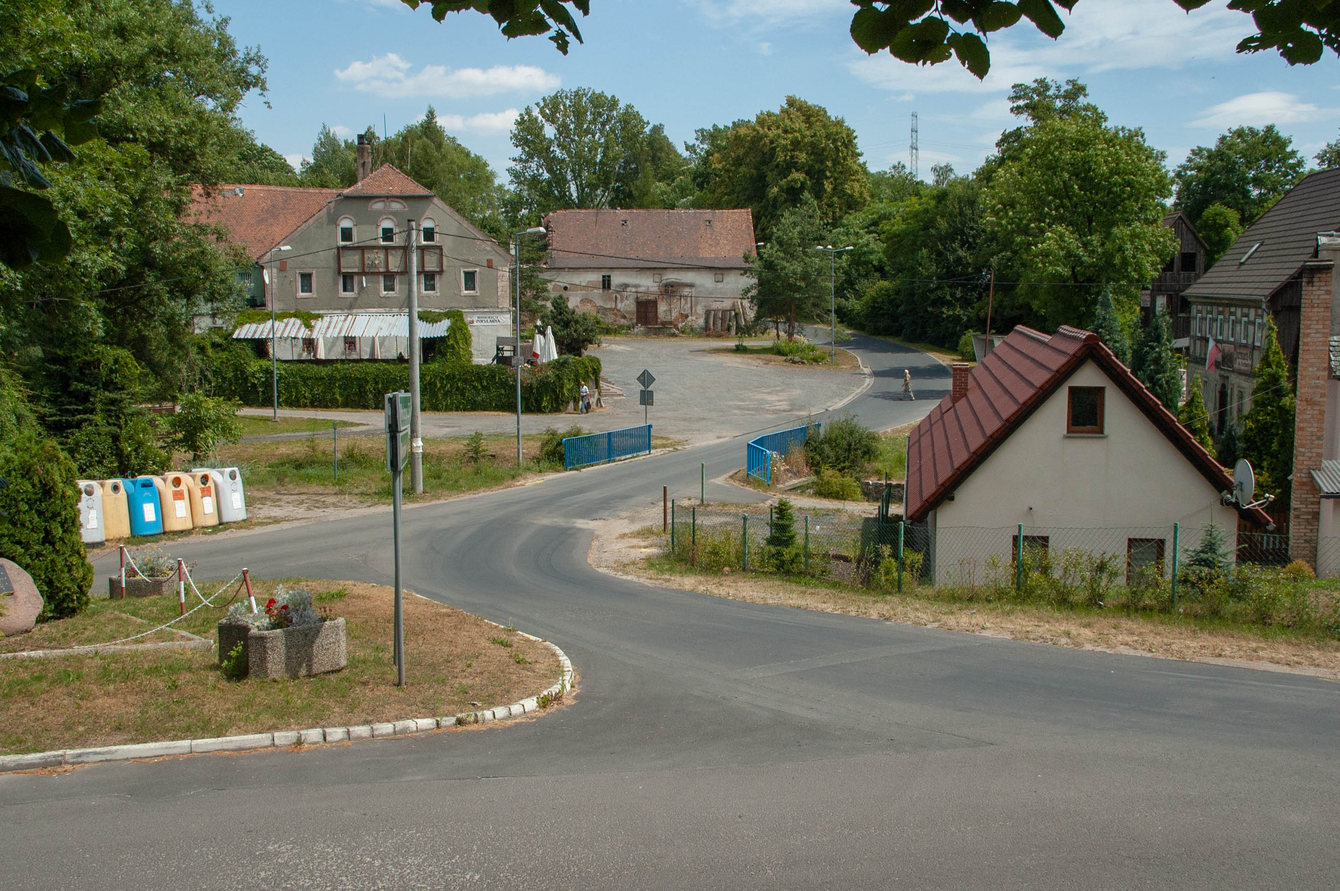 This photograph was created as a part of Wikiexpedition Lower Silesia, a project supported by Wikimedia Poland grant.